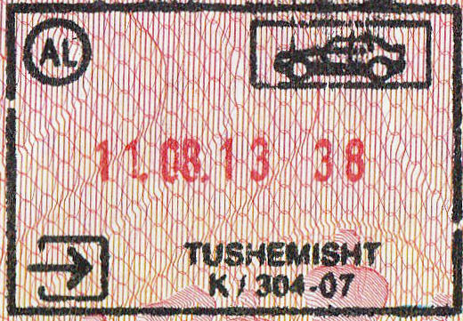 Entry stamp of Albania in Russian passport